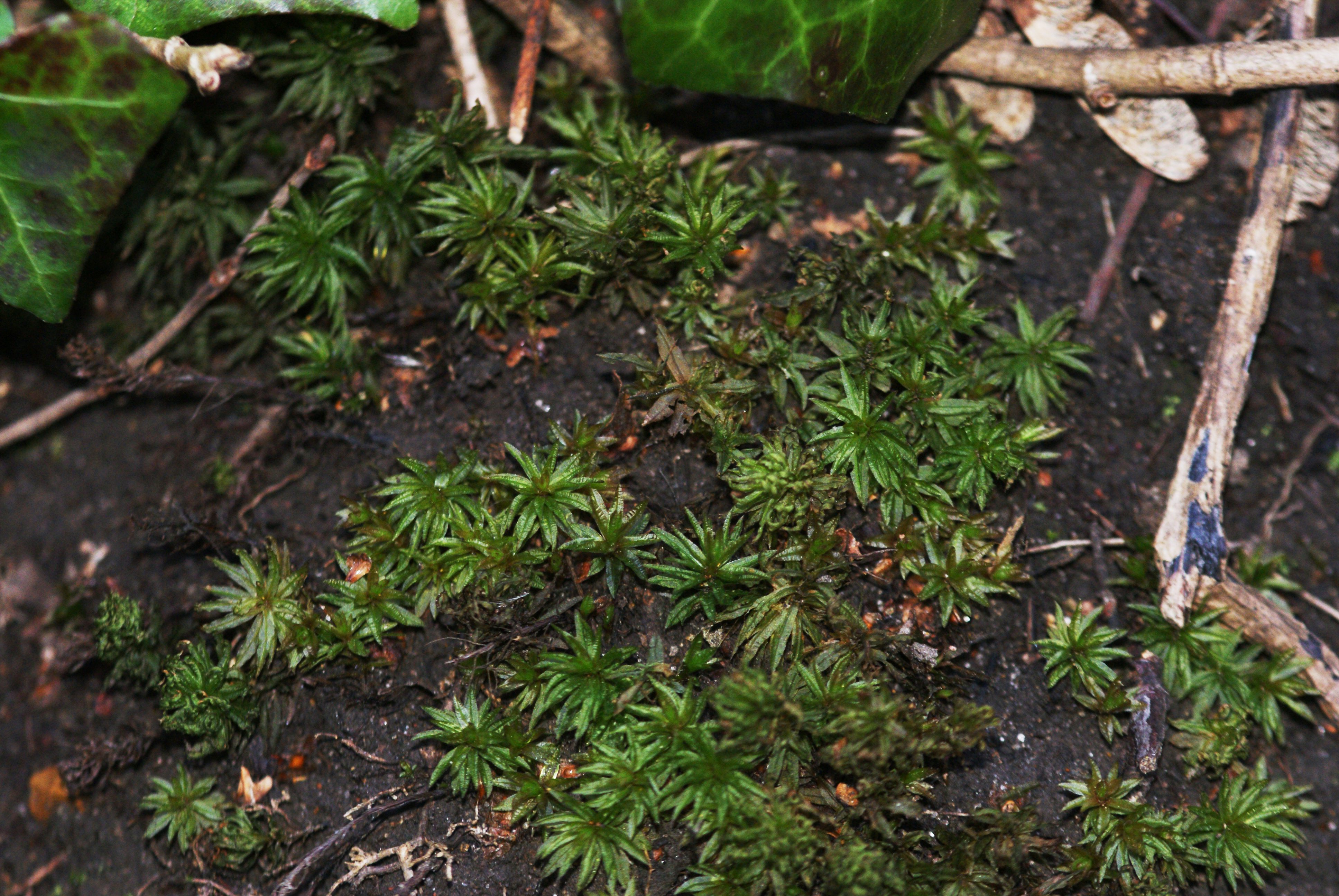 Moss Atrichum undulatum in Gunnersbury Triangle